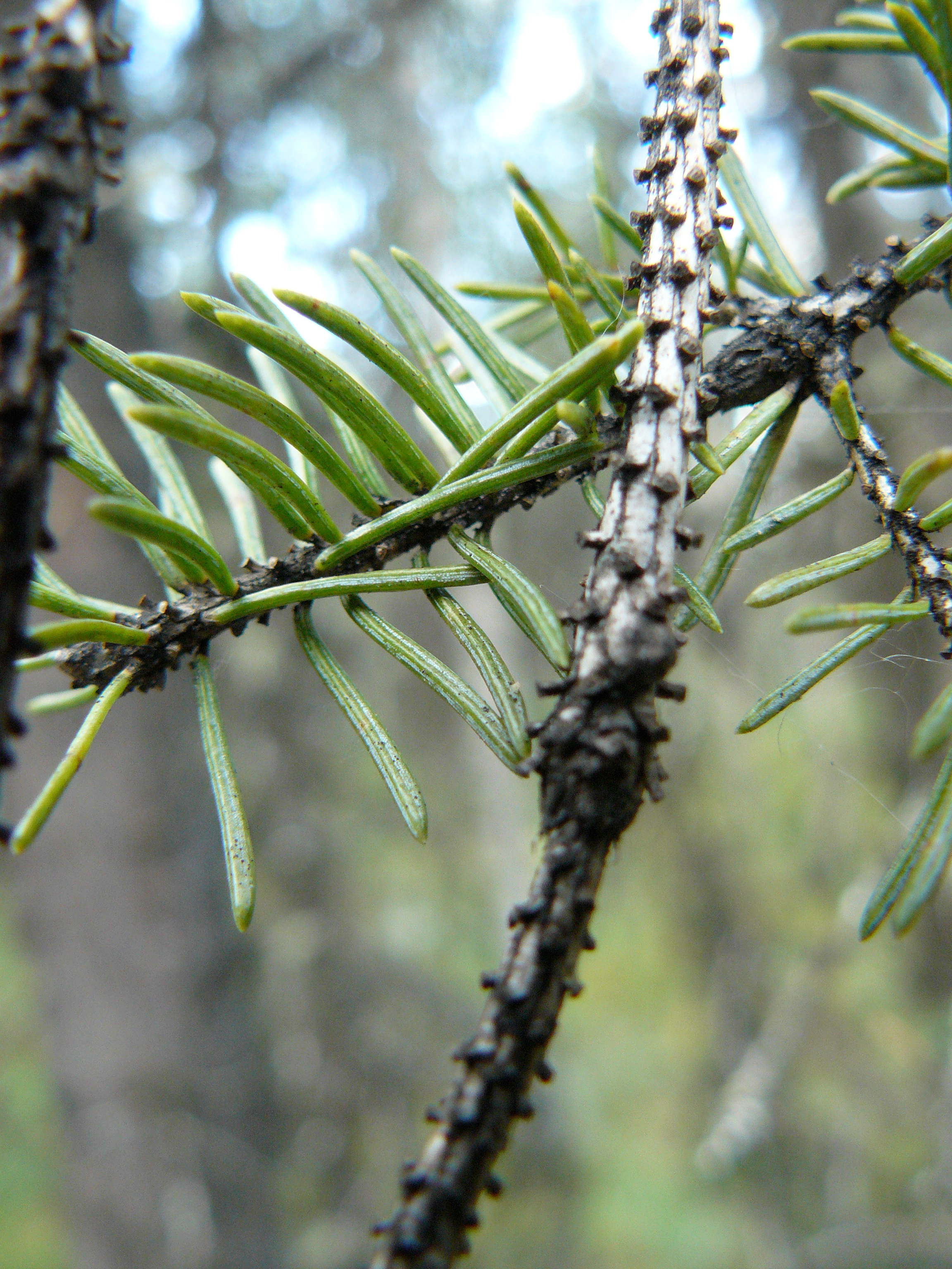 Picea glauca twig with leaves. Woods at Riley Creek Campground, Denali National Park, Alaska.